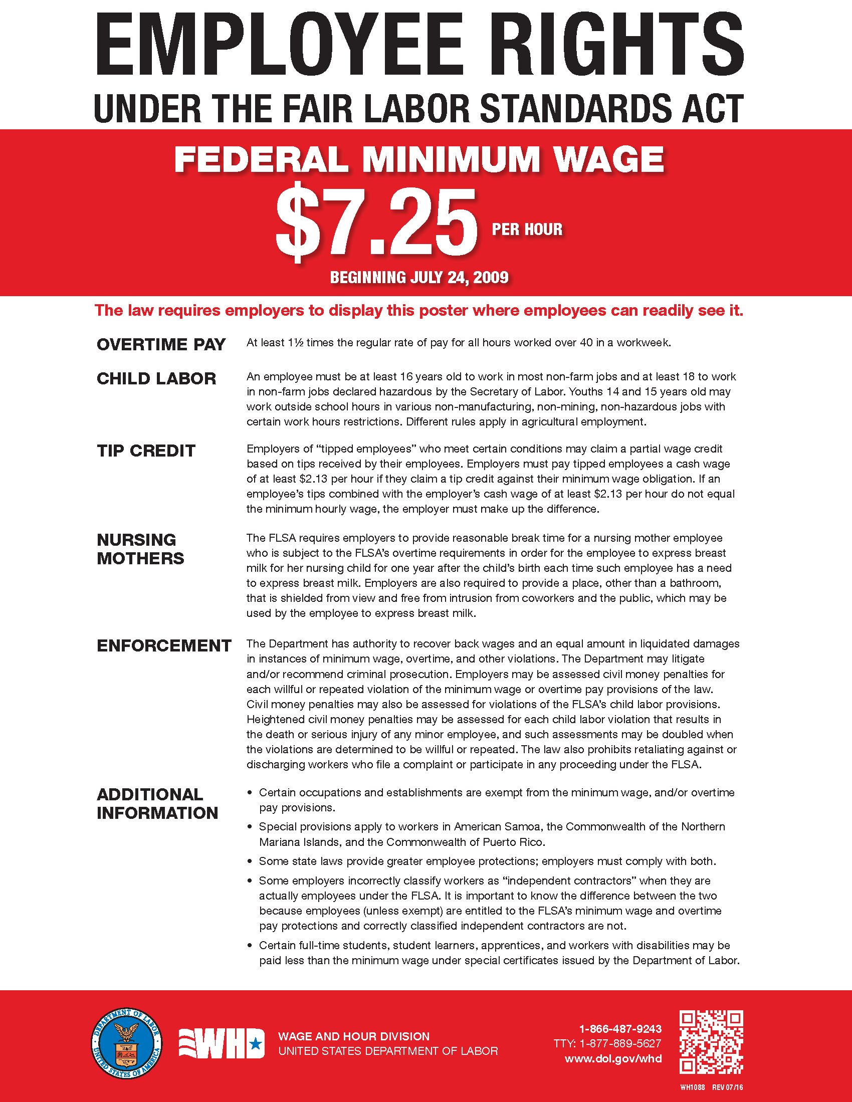 Poster, "Employee Rights Under the Fair Labor Standards Act."